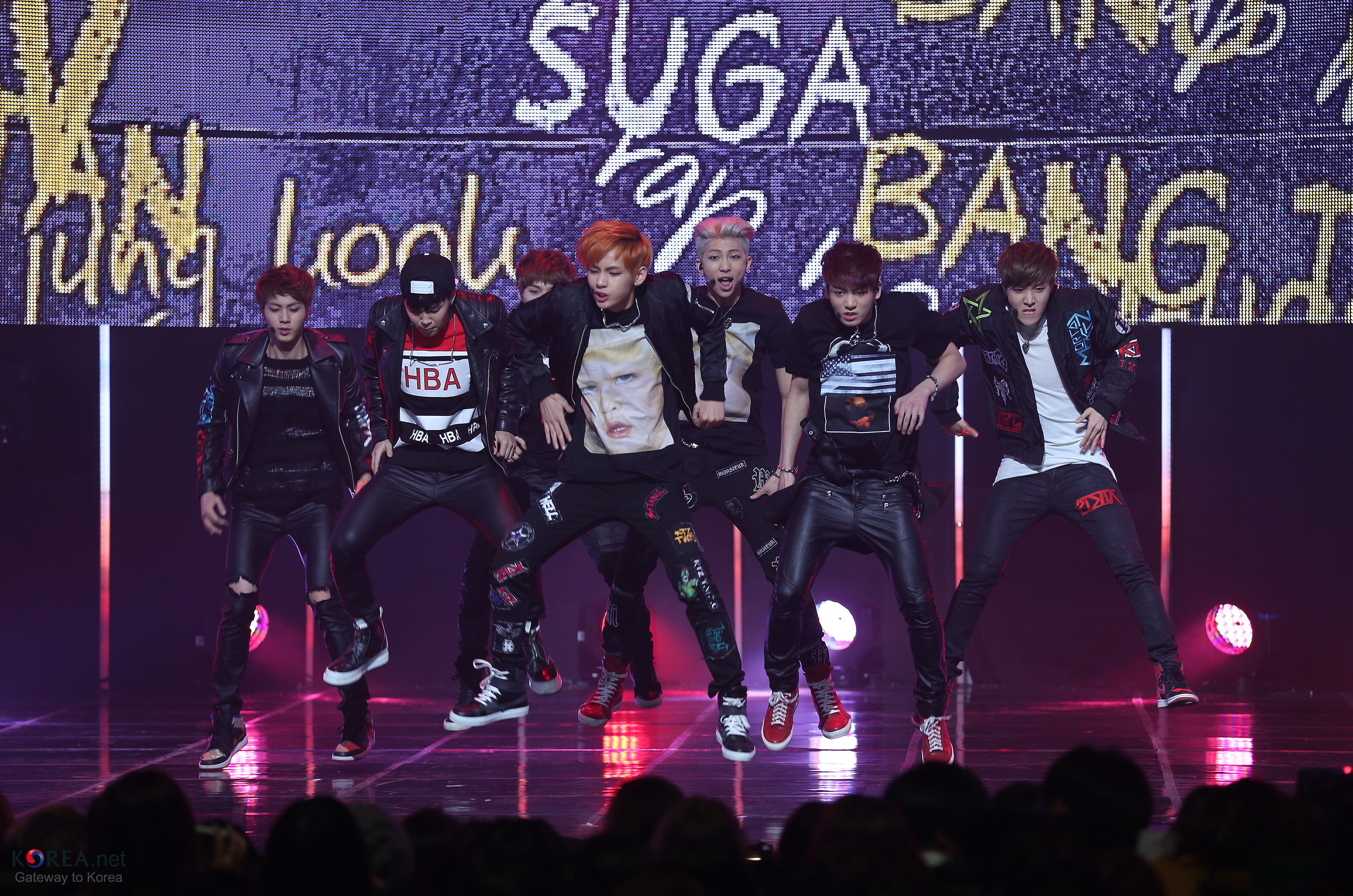 Mcountdown BTS ‘Boy in Luv’ Jin, Jimin, Suga, V, Rapmon, Jungkook, J-Hope CJ E&M Center, Sangam-dong, Mapo-gu, Seoul 2014.03.06. Ministry of Culture, Sports and Tourism Korean Culture and Information Service ( Jeon Han 엠카운트다운 생방송 방탄소년단 ‘상남자’ 랩모스터, 슈가, 진, 제이홉, 지민, 뷔, 정국 2014-03-06 CJ E&M 센터 문화체육관광부 해외문화홍보원 코리아넷 전한